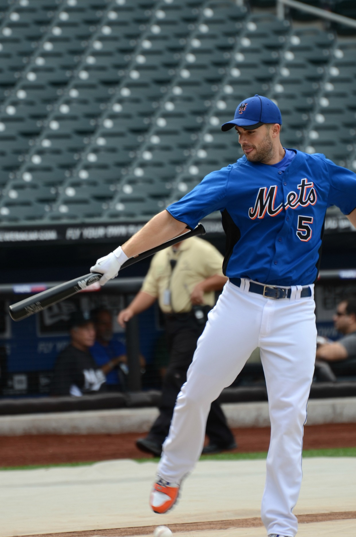 David wright